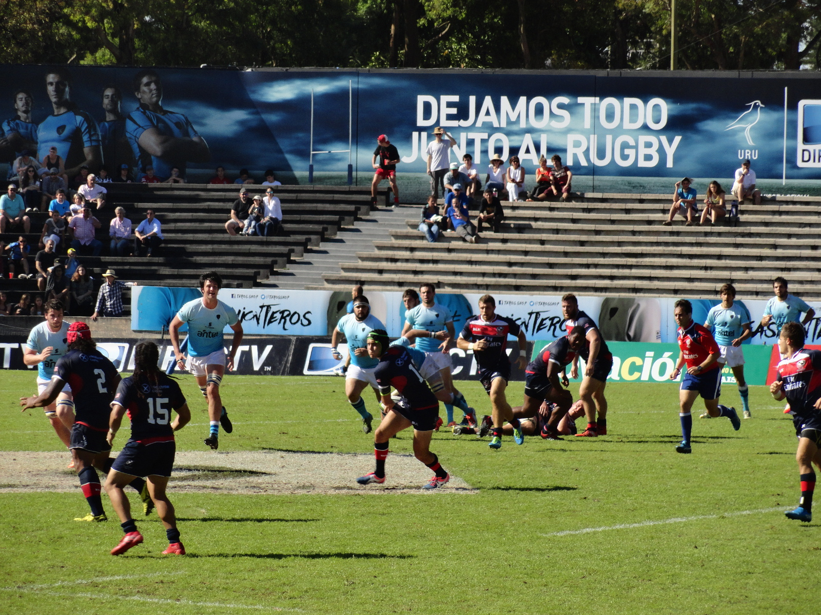 Uruguay XV vs USA Select rugby union match at the 2016 Americas Pacific Challenge